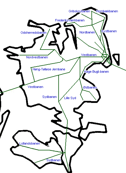 Railway network of eastern Denmark. Danish names on railways.